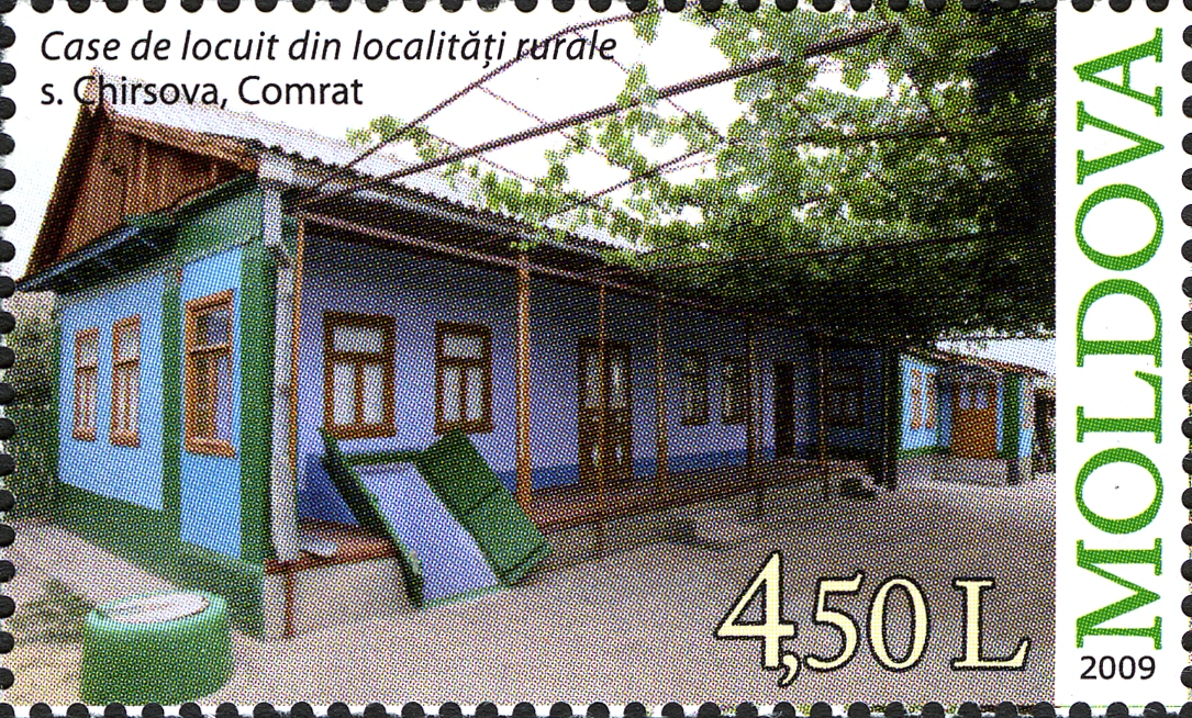 Stamps of Moldova